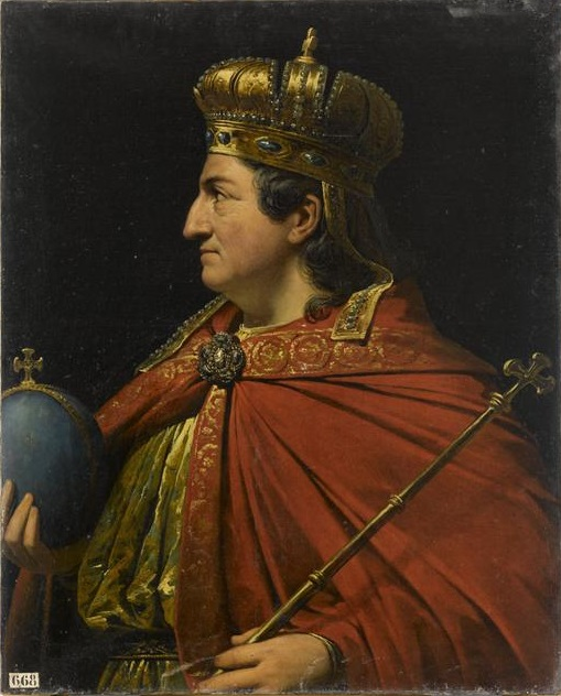 Portraits of Kings of France is a serie of portraits commissioned between 1837 and 1838 by Louis Philippe I and painted by various artists for the Musée historique de Versailles.